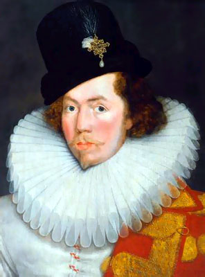 Sir Henry Unton